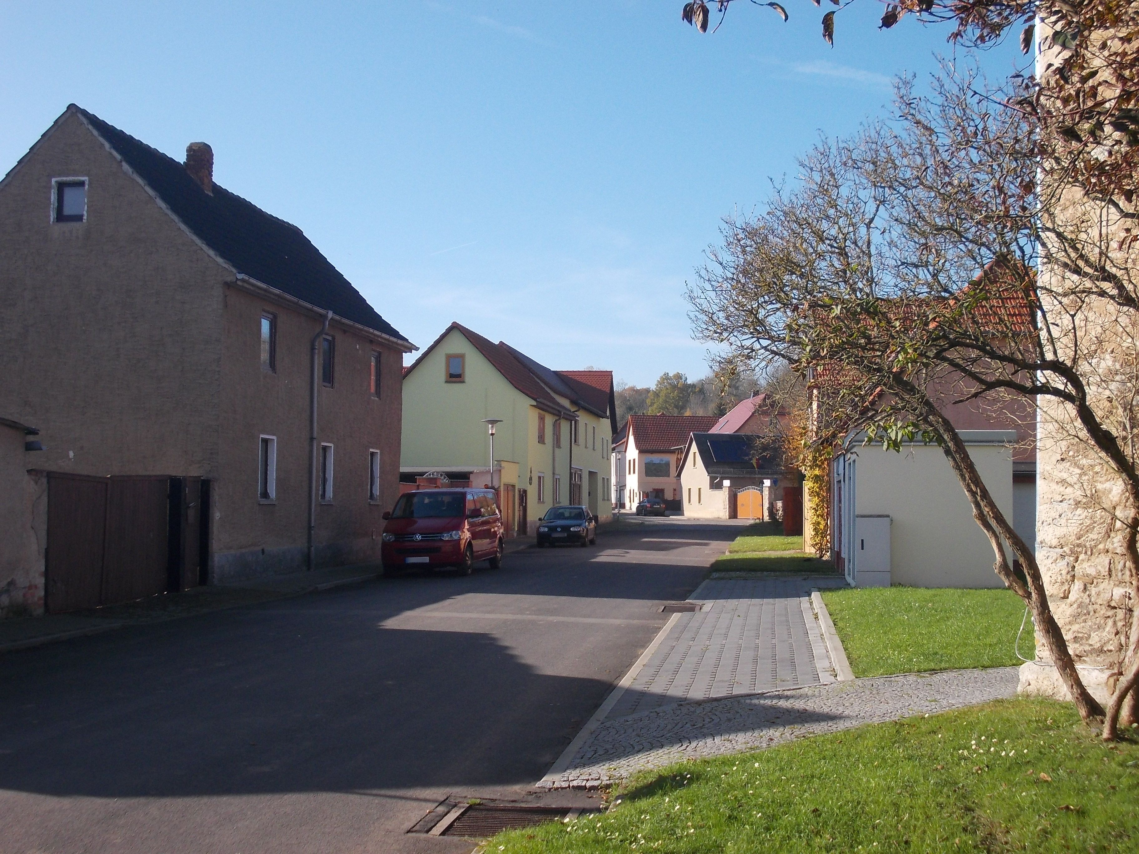 Dorfstrasse in Eberstedt (Weimarer Land sitrict, Thuringia)